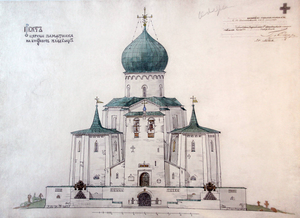 Draft of the Memorial Church on WWI cemetry in Tsarskoye Selo